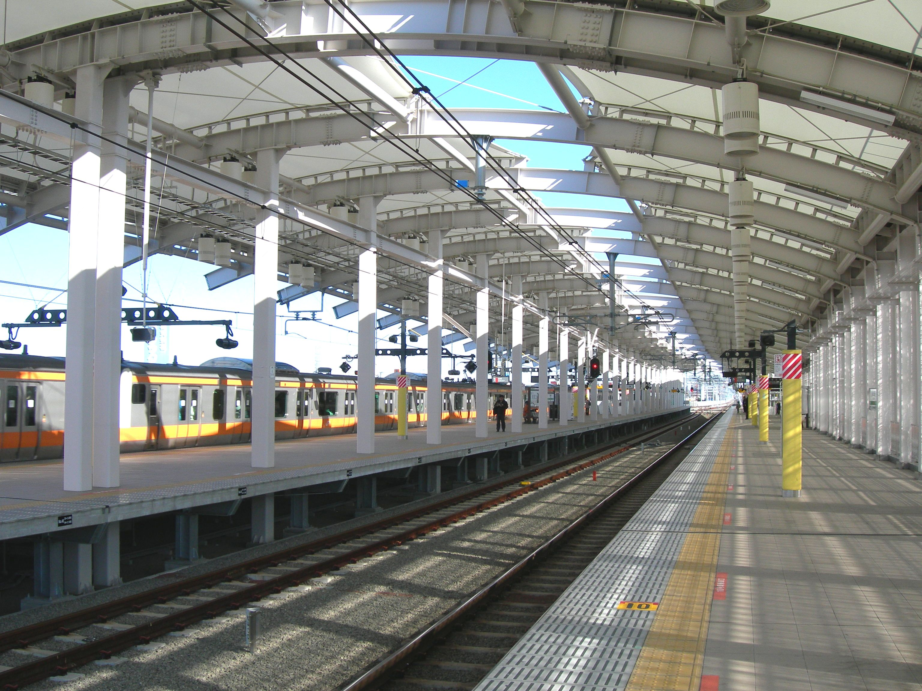 The platforms at Higashi-Koganei Station